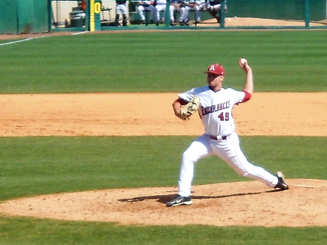 Jalen Beeks pitches for Arkansas in a baseball game between Mississippi State and Arkansas